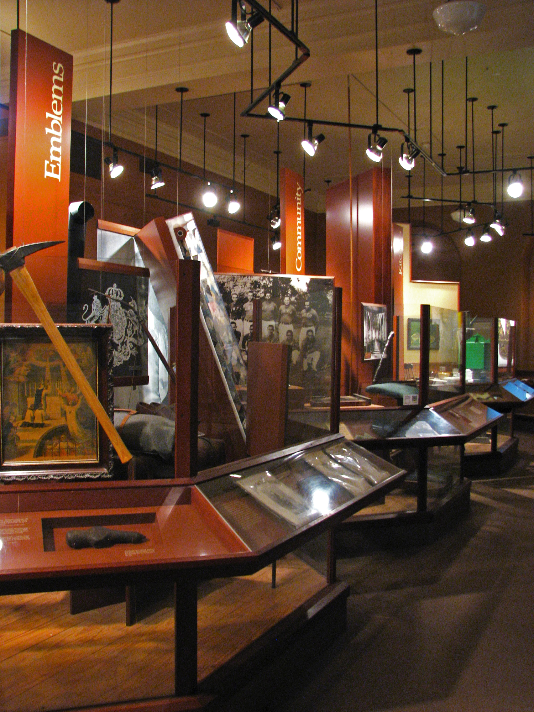 One gallery in the "Encounter on the Prairie" exhibit at the McLean County Museum of History